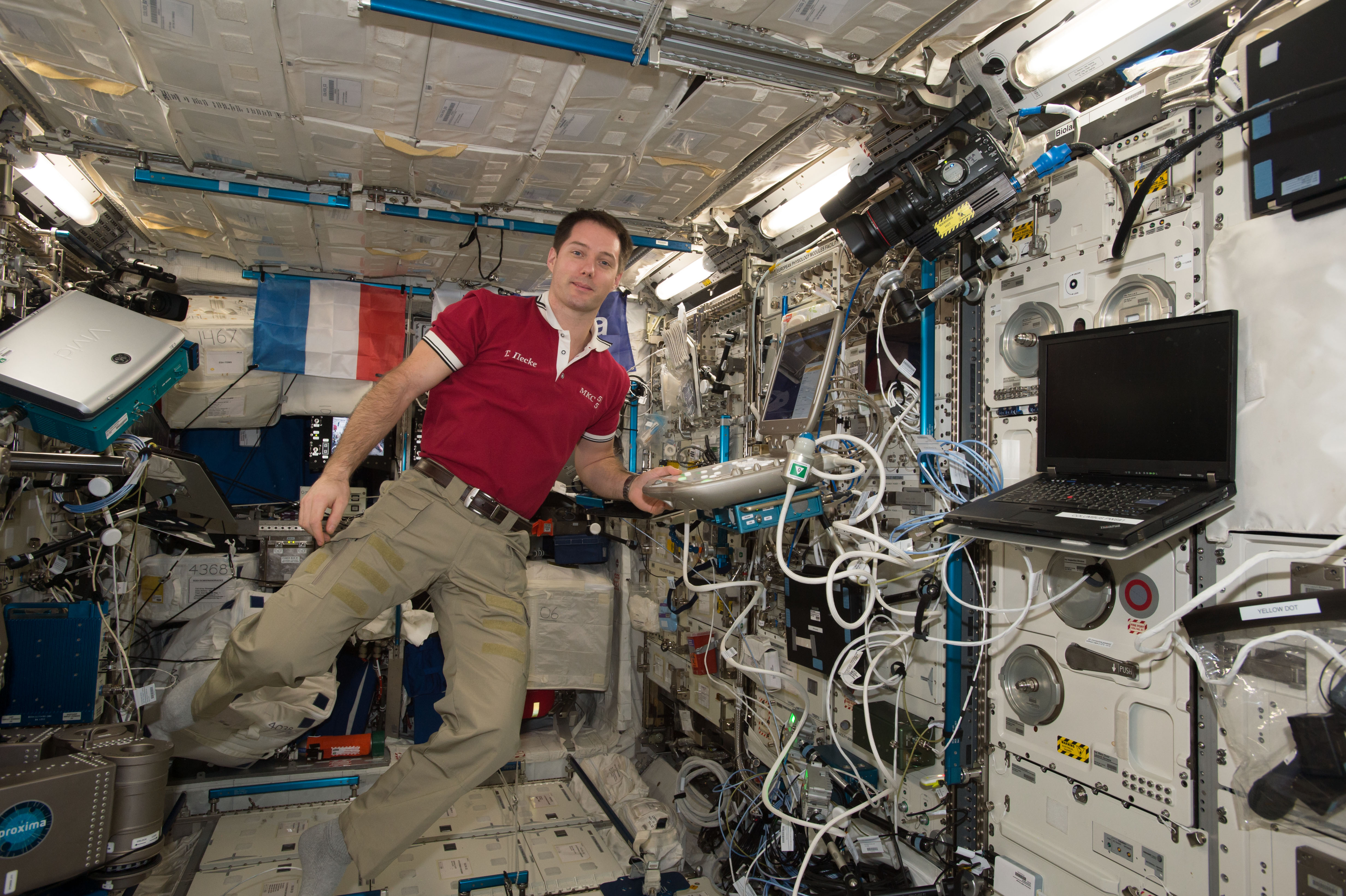 European Space Agency astronaut Thomas Pesquet works inside the Columbus laboratory module.